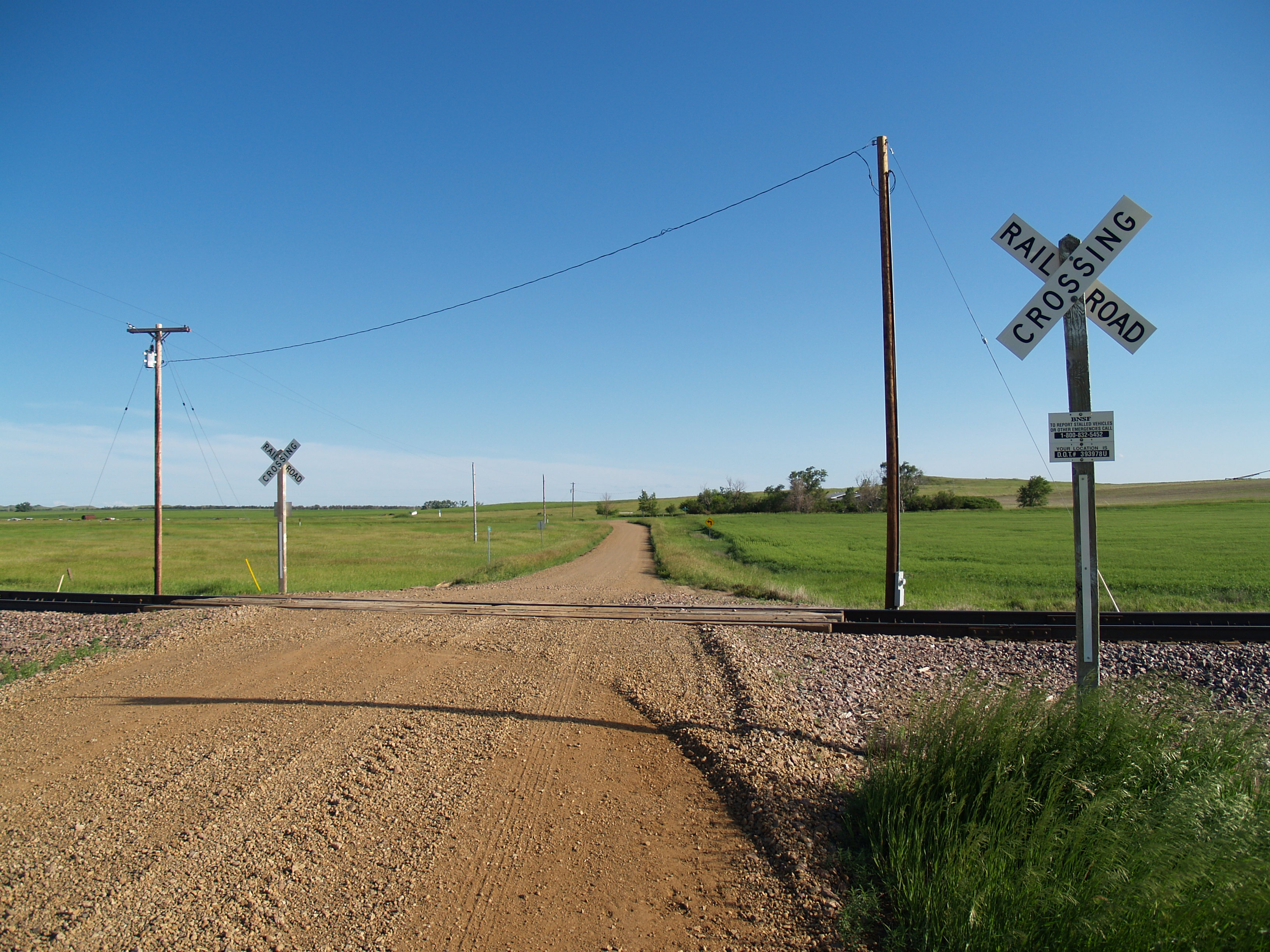 Railroad crossing in Petrel, North Dakota. From .